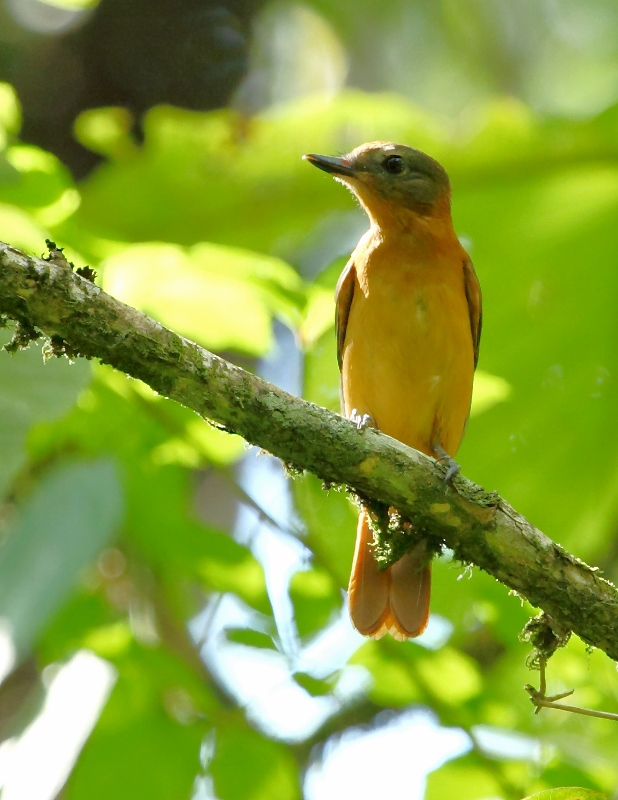 Rufous-tailed Attila at Tapiraí - SP - Brazil